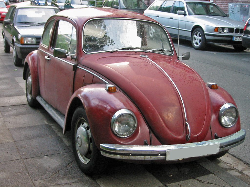 Volkswagen Beetle